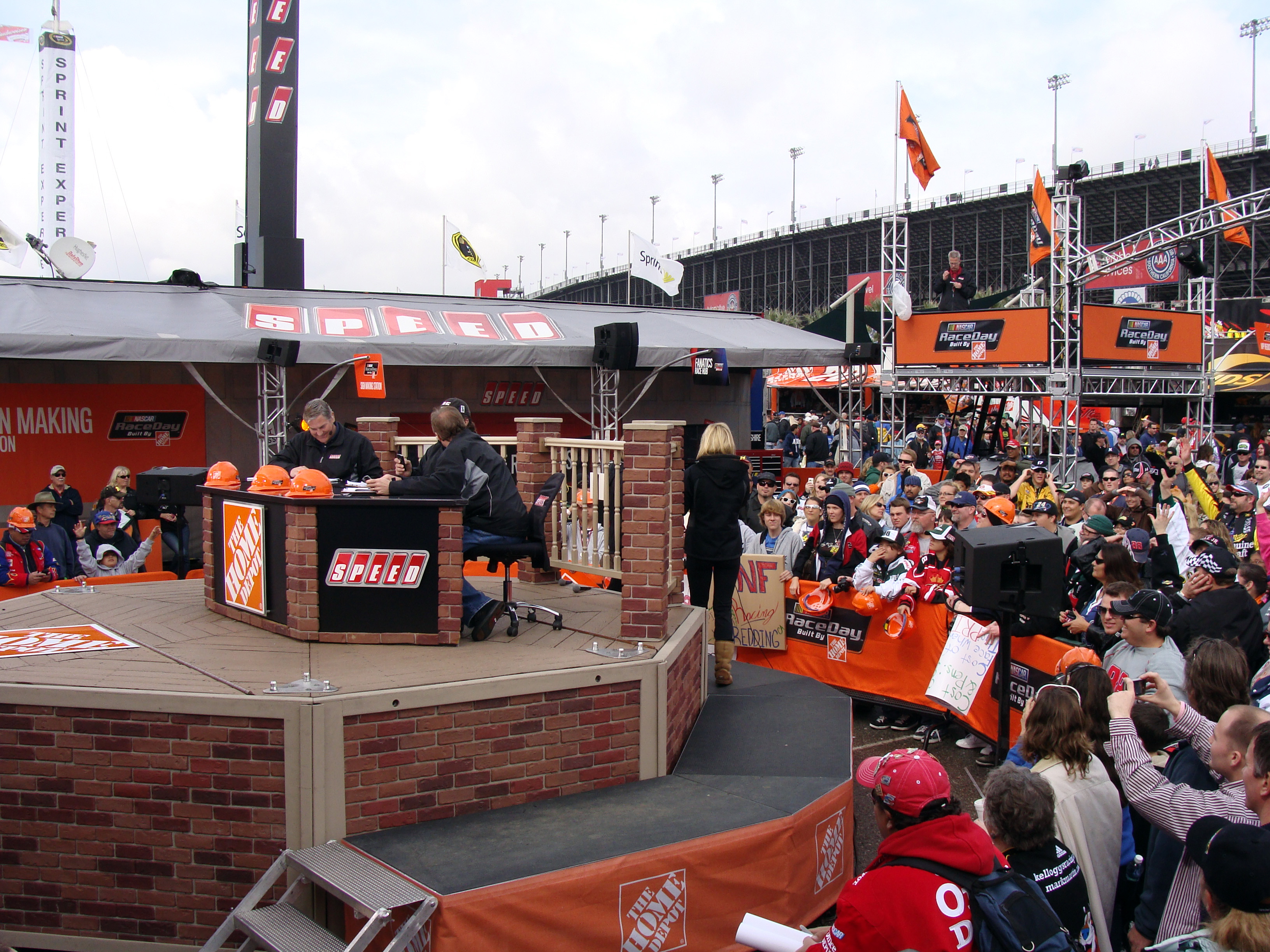 The Speed Nascar Raceday set at Auto Club Speedway